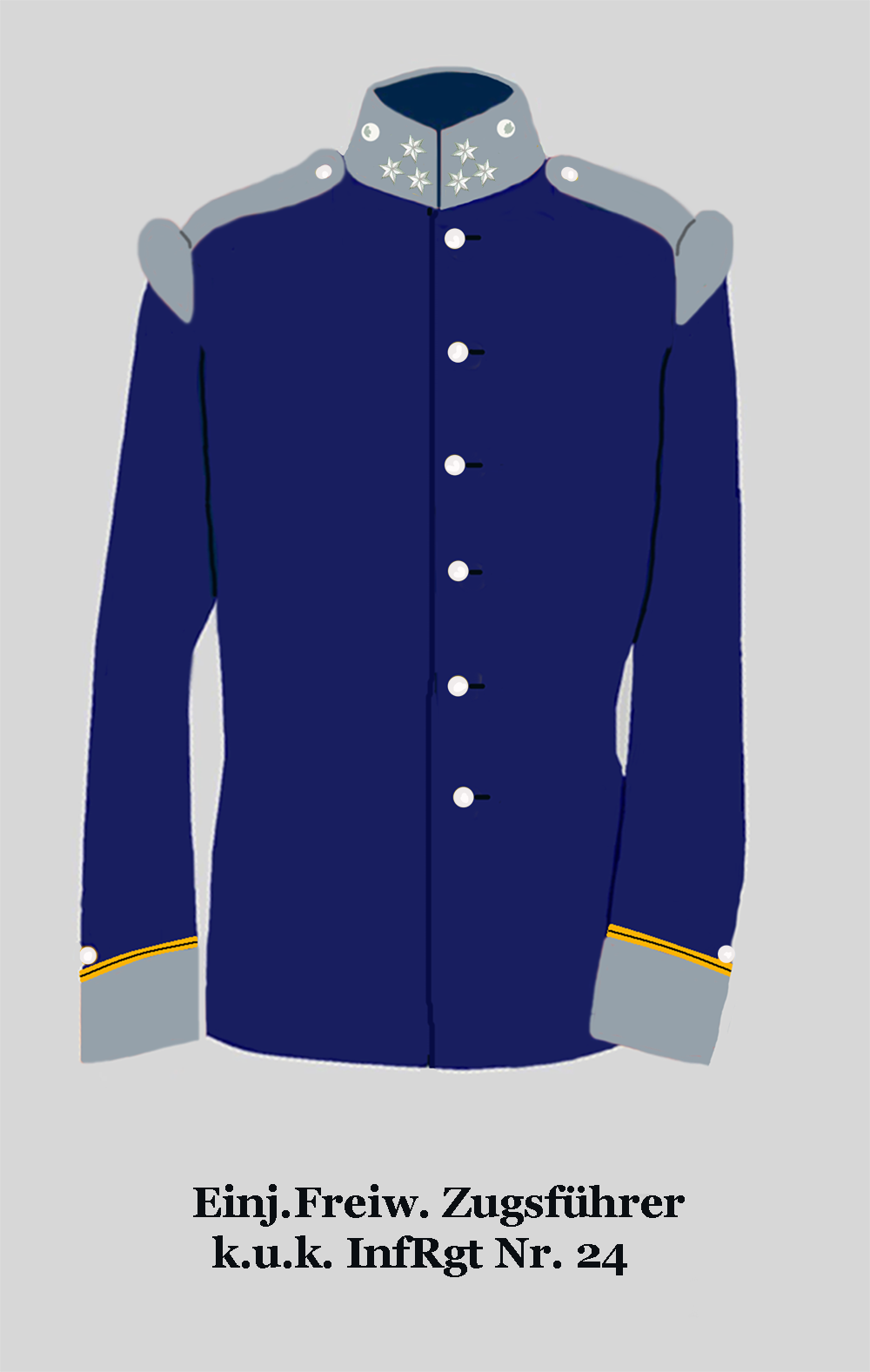 One year volunteer Sergeant of the k.u.k hungarian 24th Infantry Regiment. Ash-grey identification color and white buttons. )